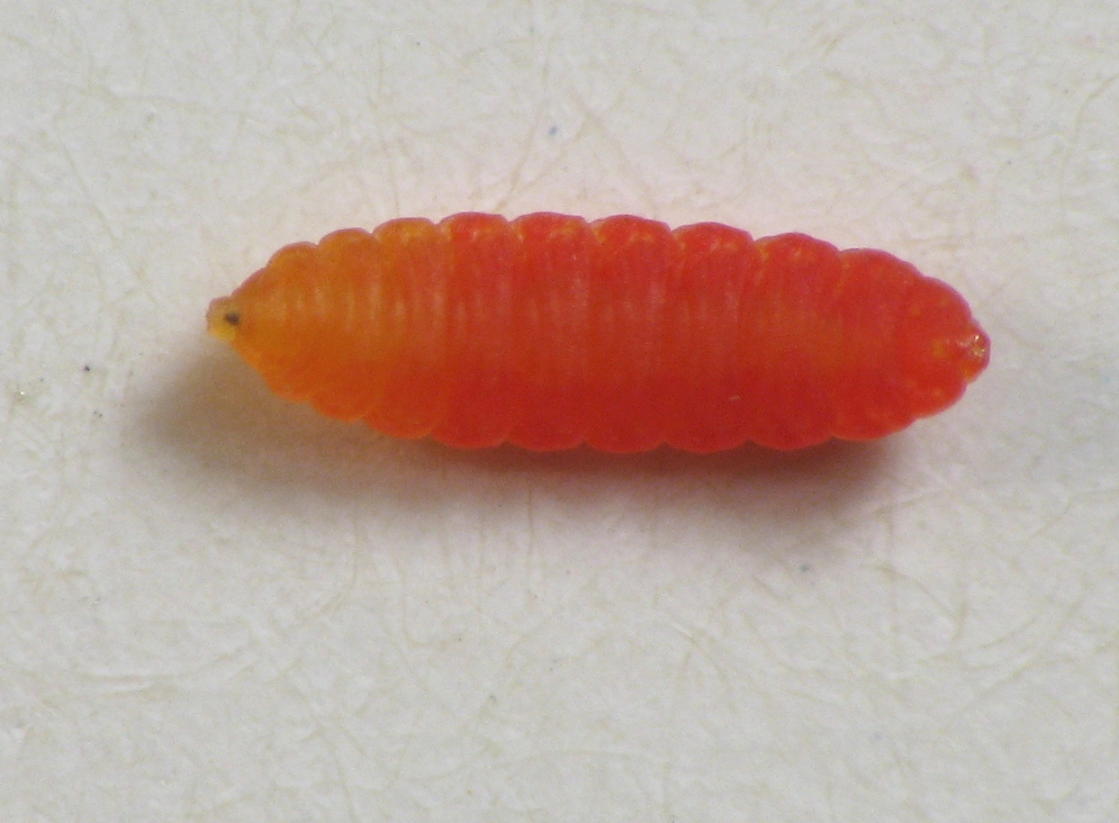 Larva of goldenrod gall maker midge Schizomyia racemicola. Horsham Trail, Montgomery County, Pennsylvania, USA.